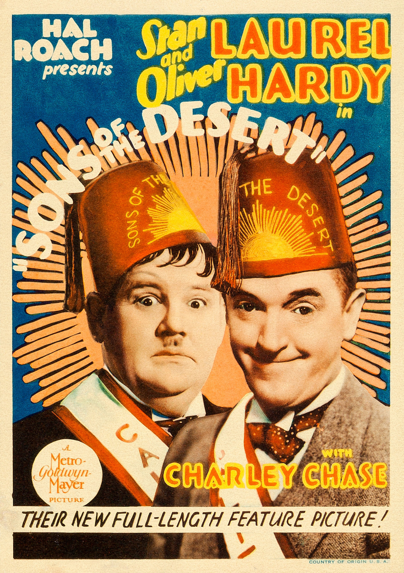 Theatrical release window card for the 1933 film Baby Face.